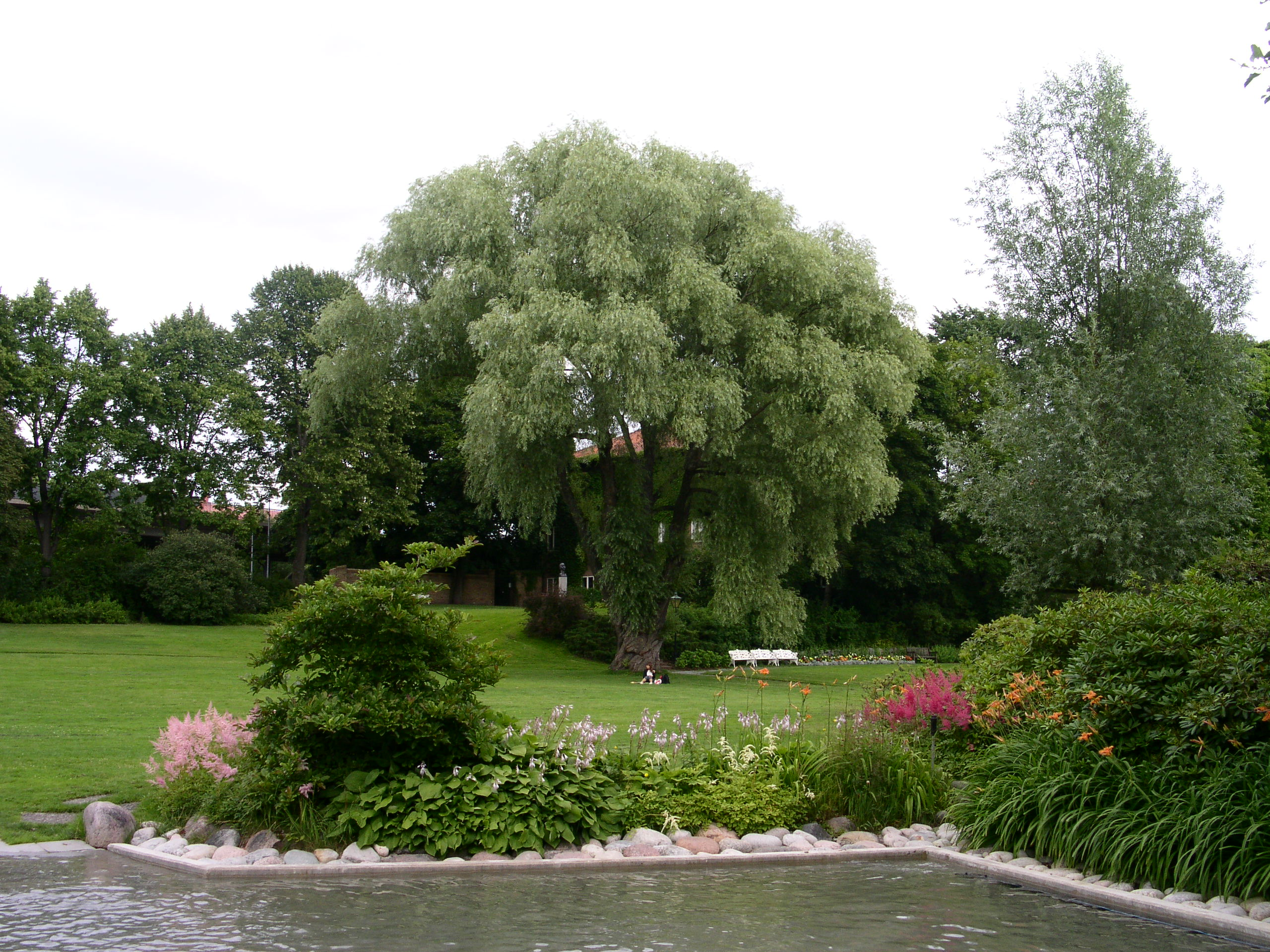 Marabou park, Sundbyberg, Sveden